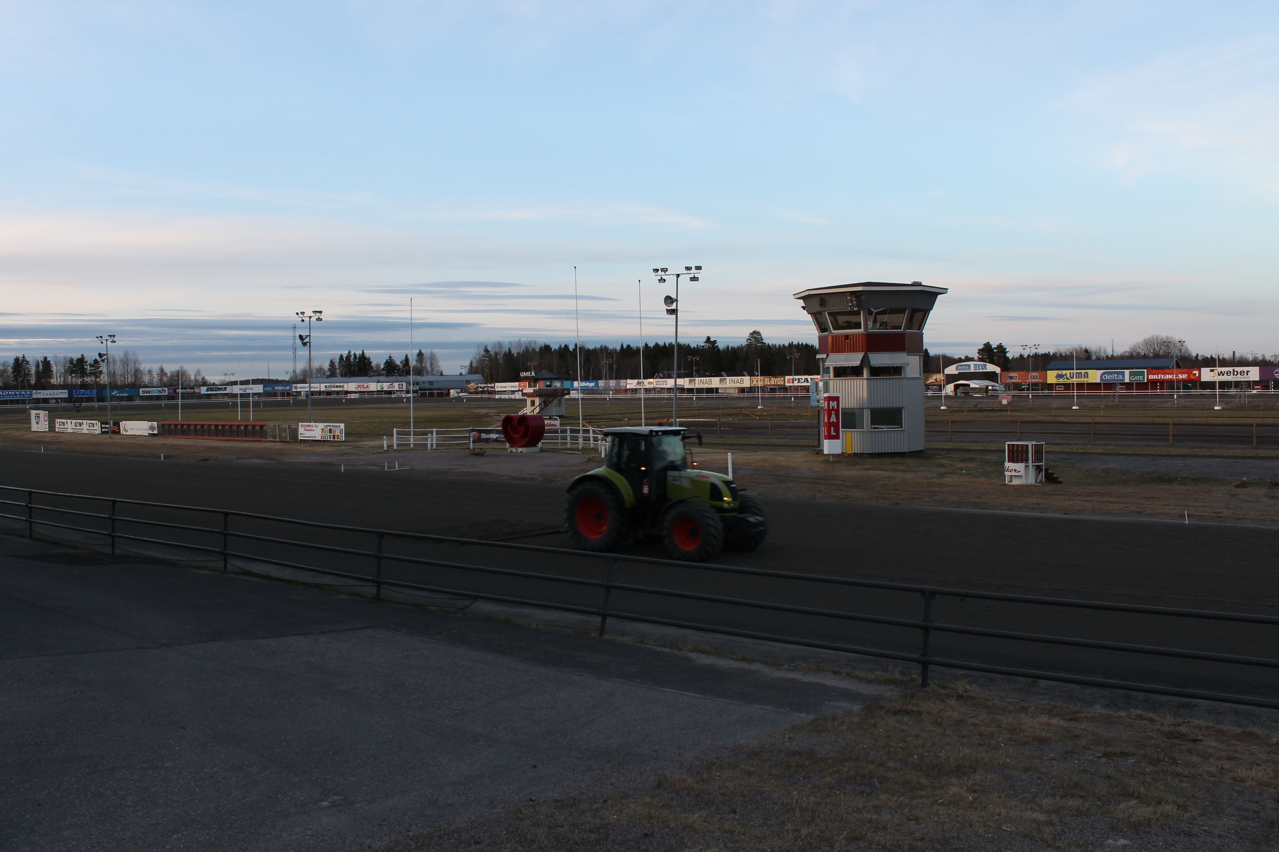 Umåker horse racing venue